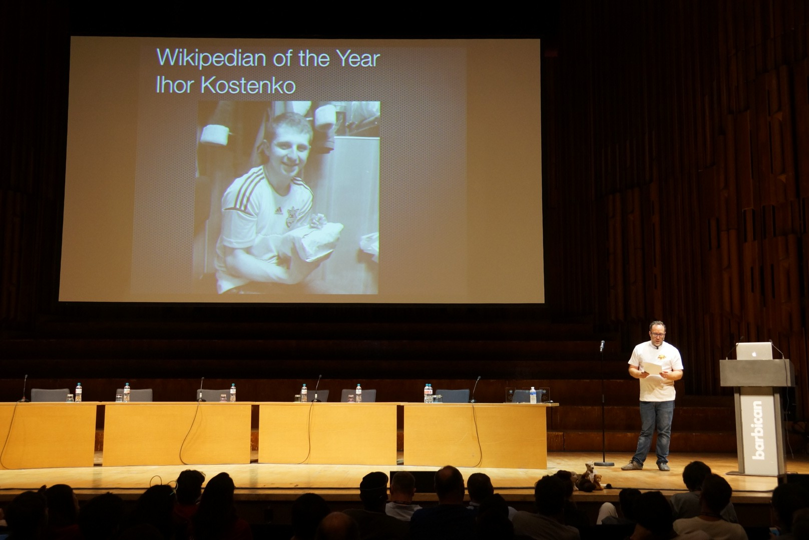 Jimmy Wales announces Ihor Kostenko as the Wikipedian of the Year at the closing ceremony of Wikimania 2014 in London, UK